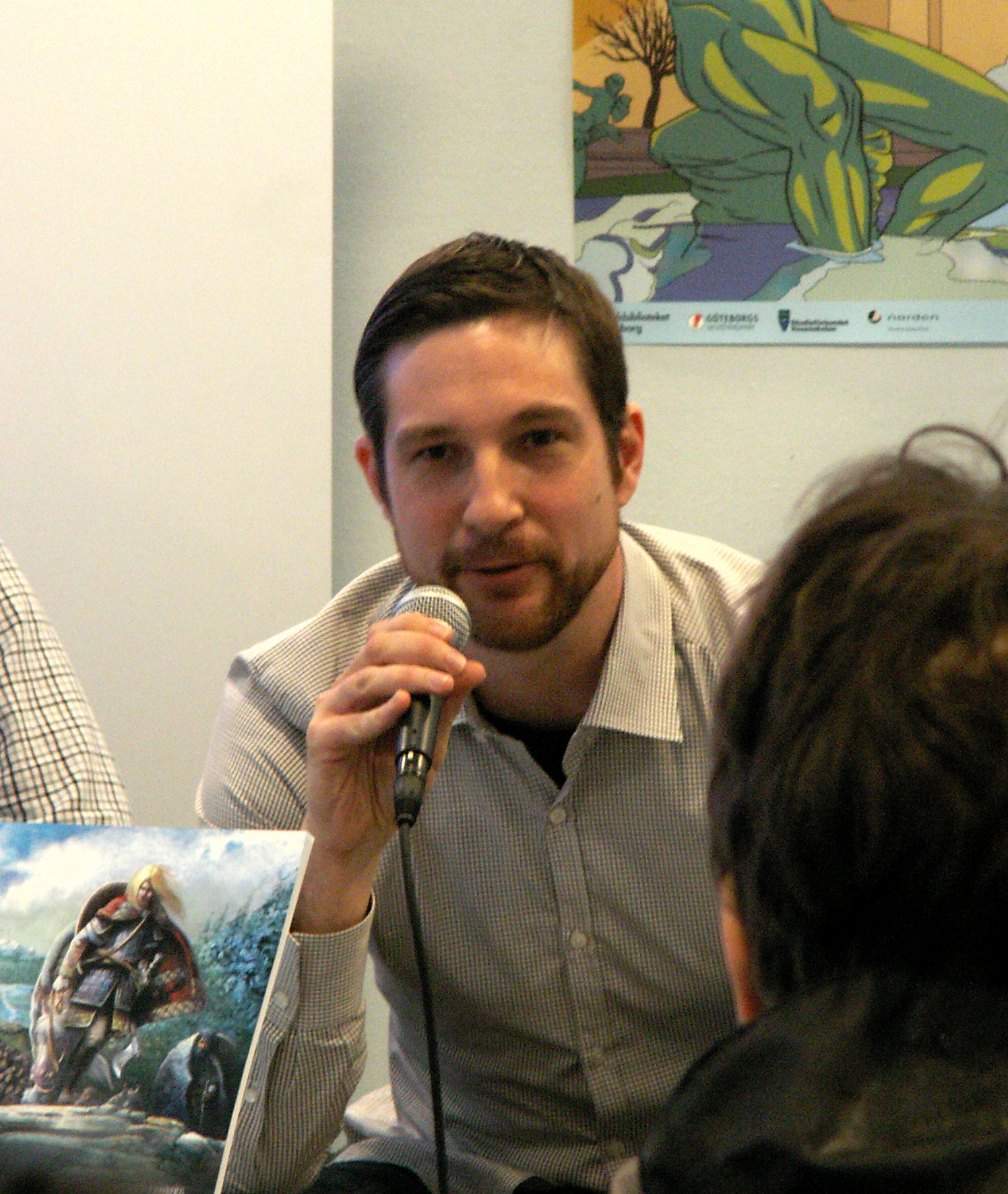 Comics writer Sylvain Runberg, at Serieveckan 2010 in Göteborg.